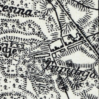 Tryputnia on the map "Karte des Westlichen Russlands", T 35, 1917. According to Digital Repository of Scientific Institutes and Kujawsko-Pomorska Digital Library the map is in the public domain.